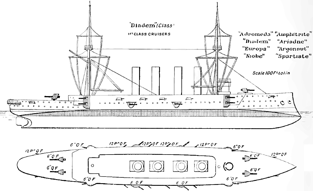 Sketch of the British armoured cruisers Diadem class.